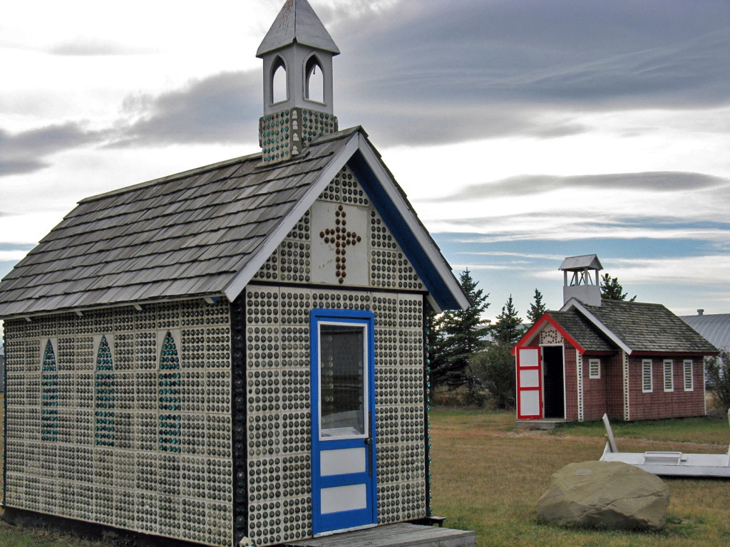 Crystal Village a display of mini buildings constructed entirely out of power line insulators in Heritage Acres northeast of Pincer Creek, Alberta.